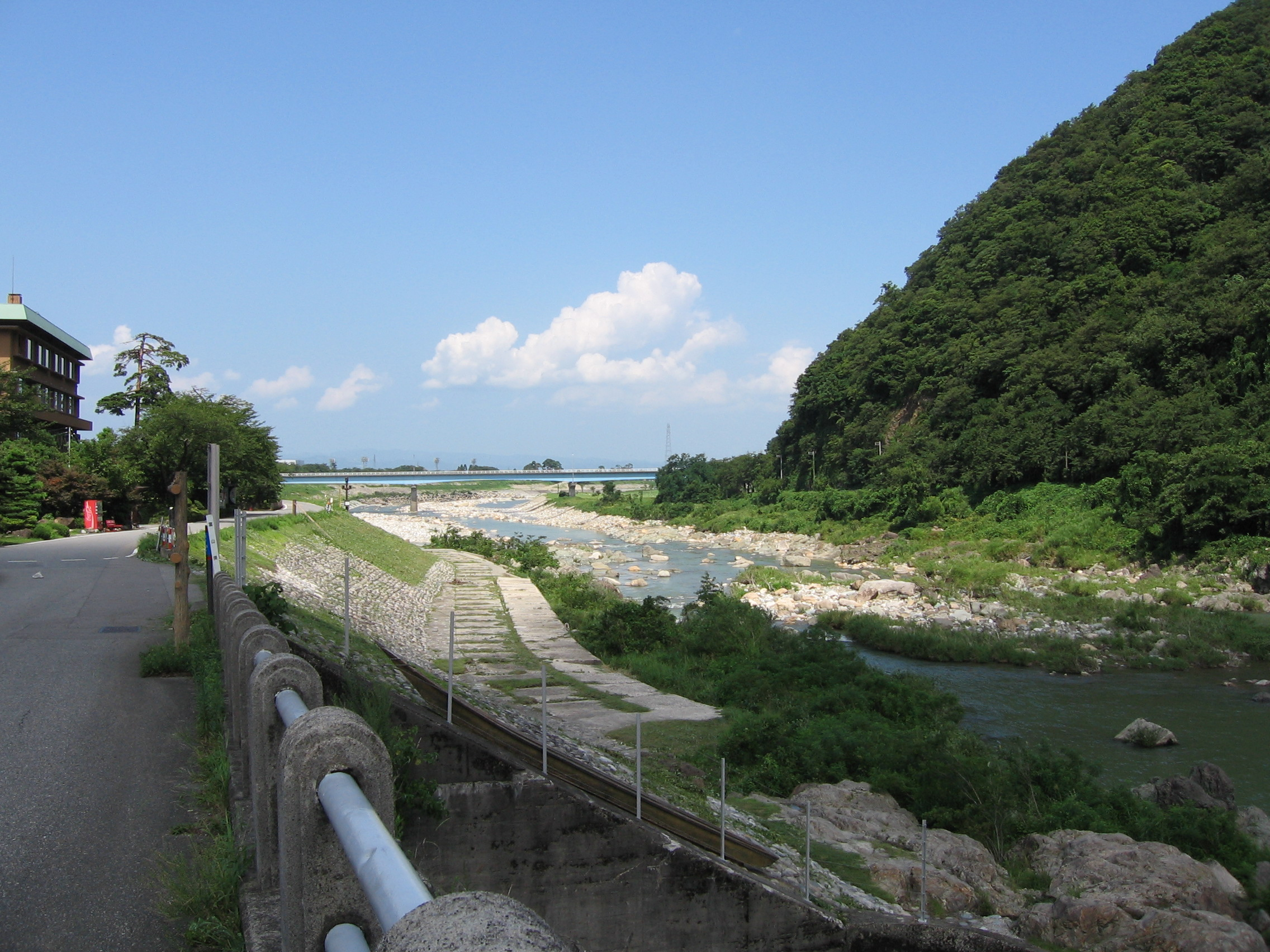 The view of Sho River. In Shogawamachi Kanaya, Tonami, Toyama, Japan.